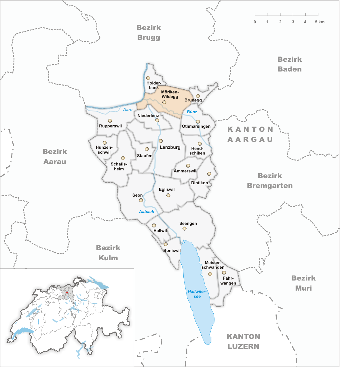 Municipality Möriken-Wildegg